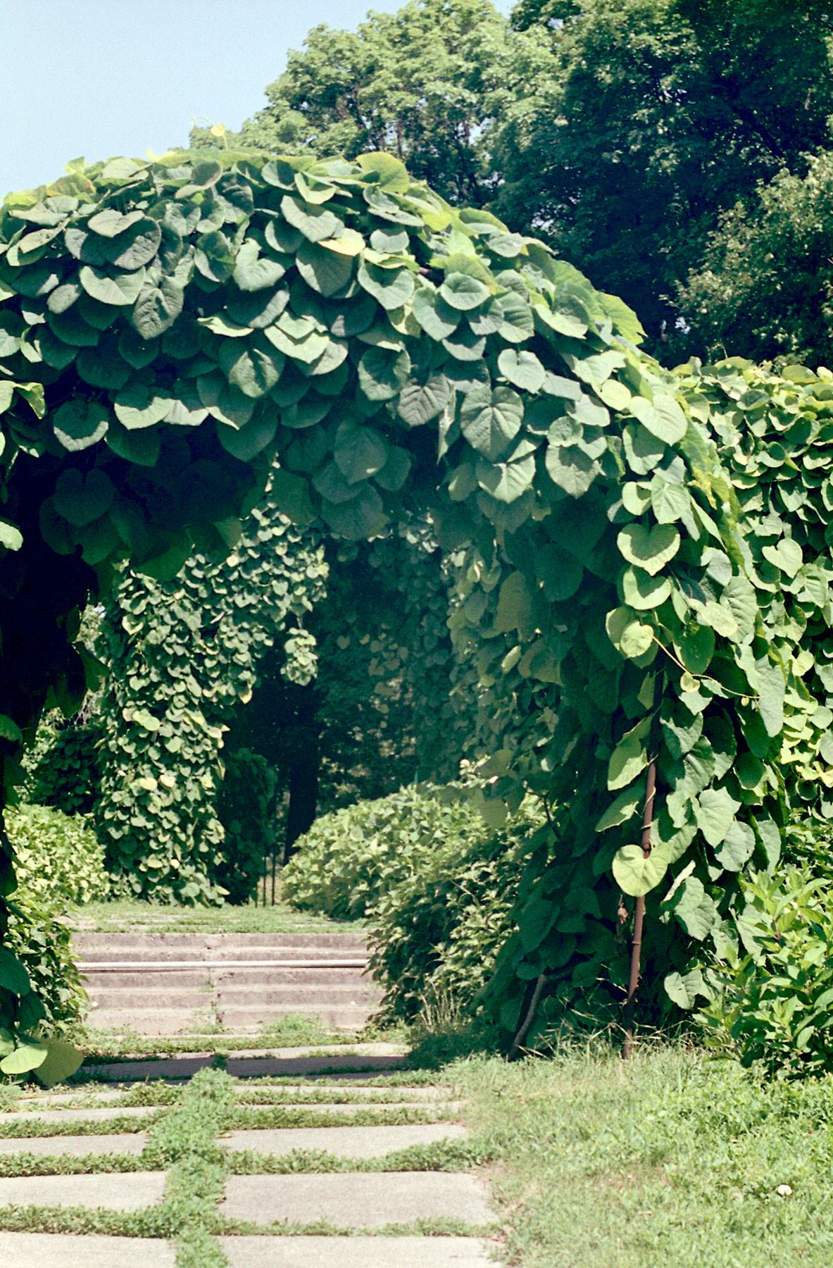 "Garden of lianas" - at National M. M. Grishko botanical garden (Kiev, Ukraine).